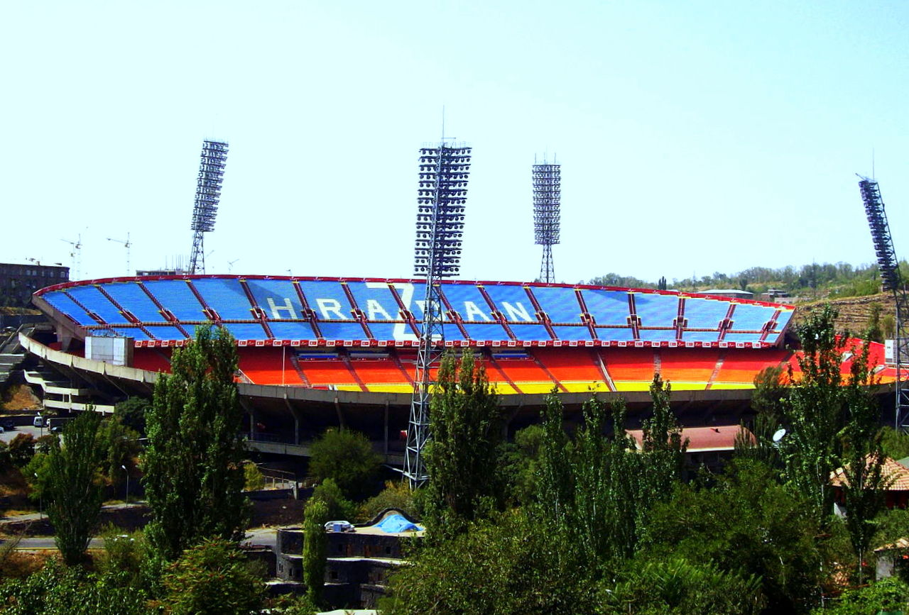 Hrazdan Stadium